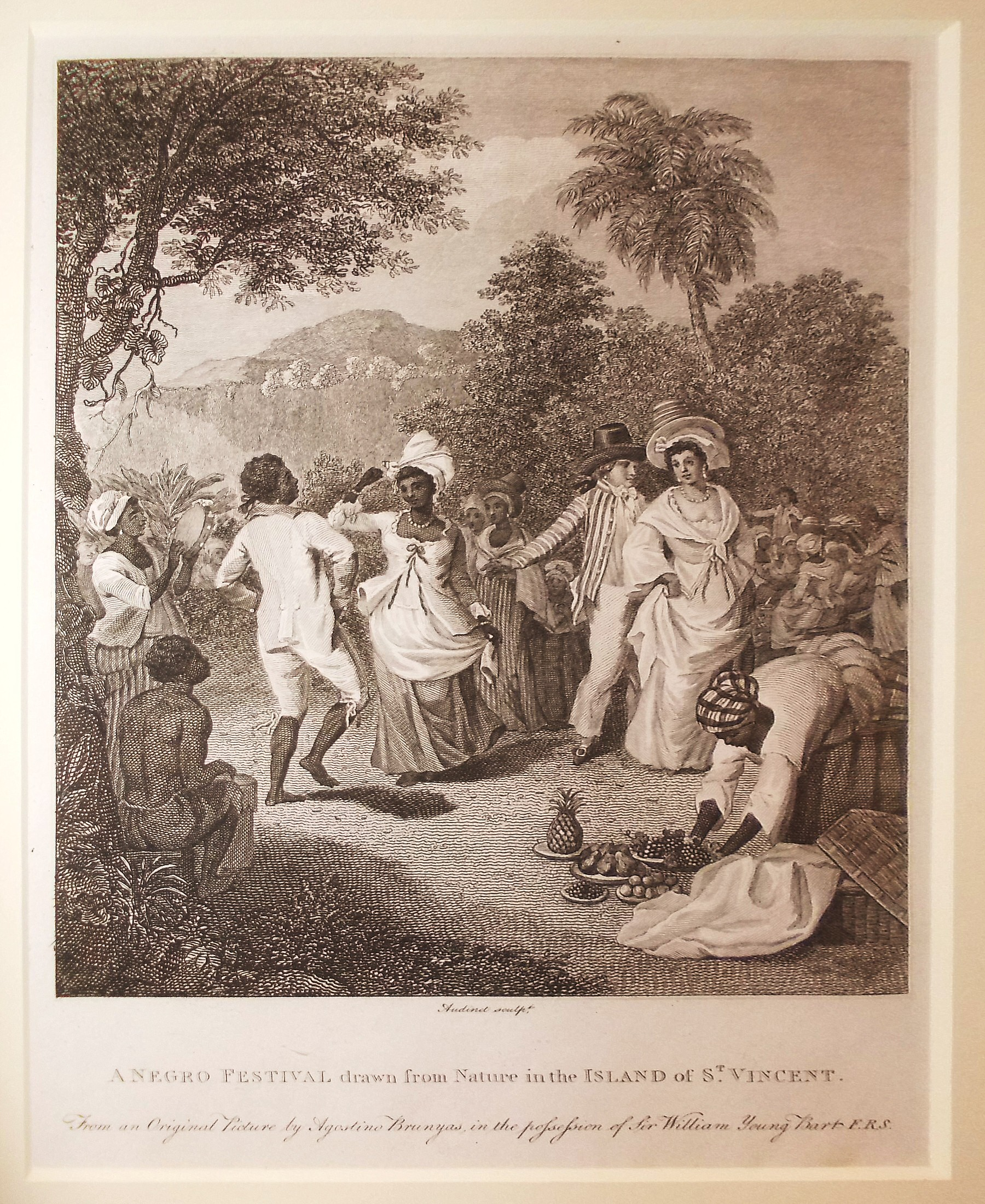 Engraving 'after Agostino Brunias' (ca 1801) and formerly attributed to him, entitled A Negro Festival drawn from Nature in the Island of St Vincent. Engraved by Audinet. The work depicts apparently happy slaves dancing in fine clothes in a clearing, with a spread of exotic fruits from a large wicker hamper. In collection of National Maritime Museum, Greenwich.